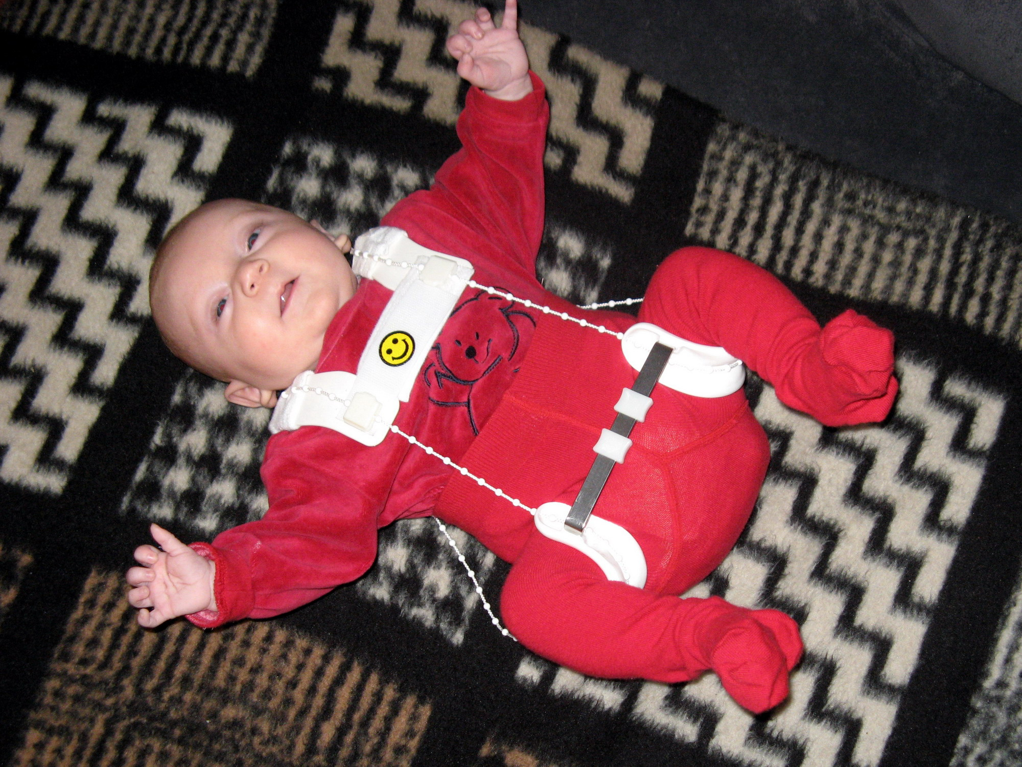 Baby (my daughter) with Bock harness Hip dysplasia (human).